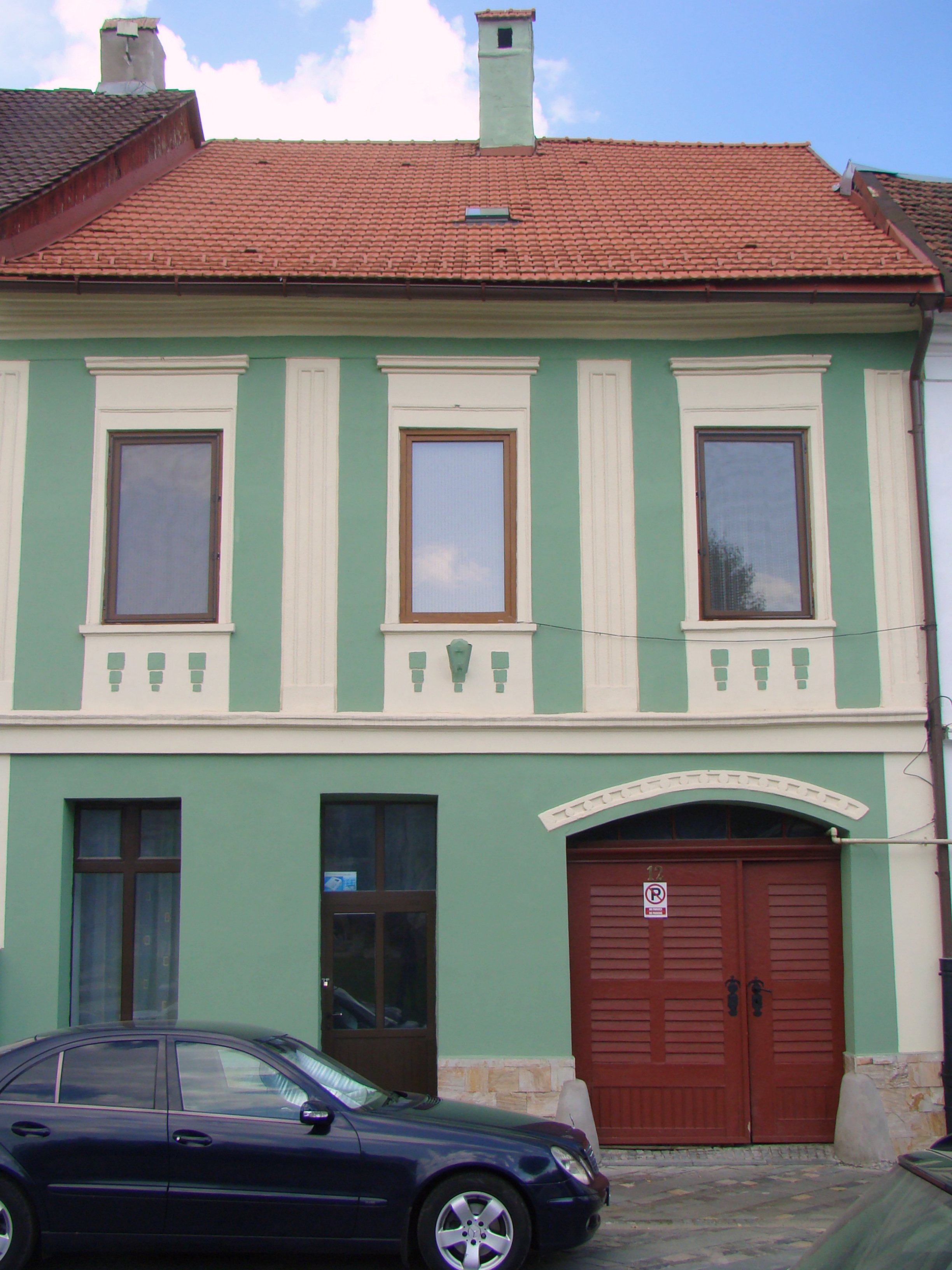 House, historic monument, in Bistrița, Piața Mică 12